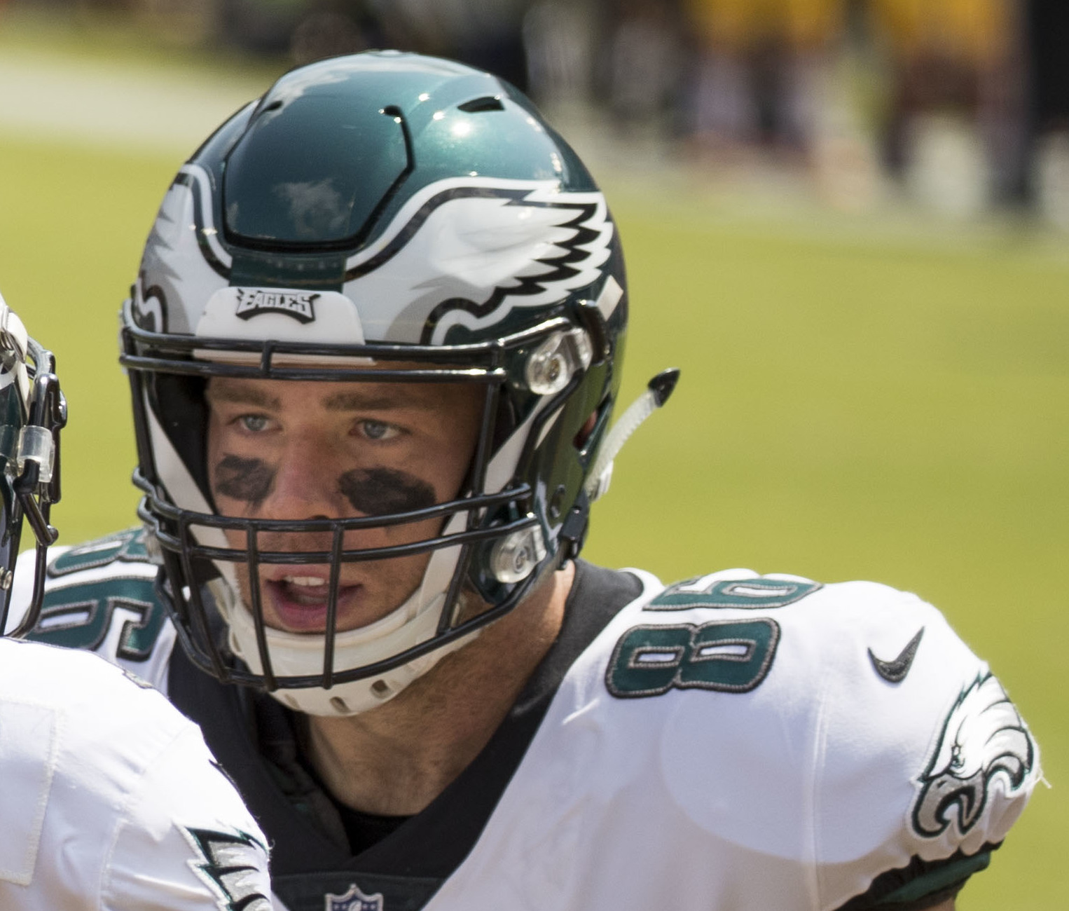 Philadelphia Eagles tight end, Zach Ertz, during a game against the Washington Redskins on September 10, 2017.